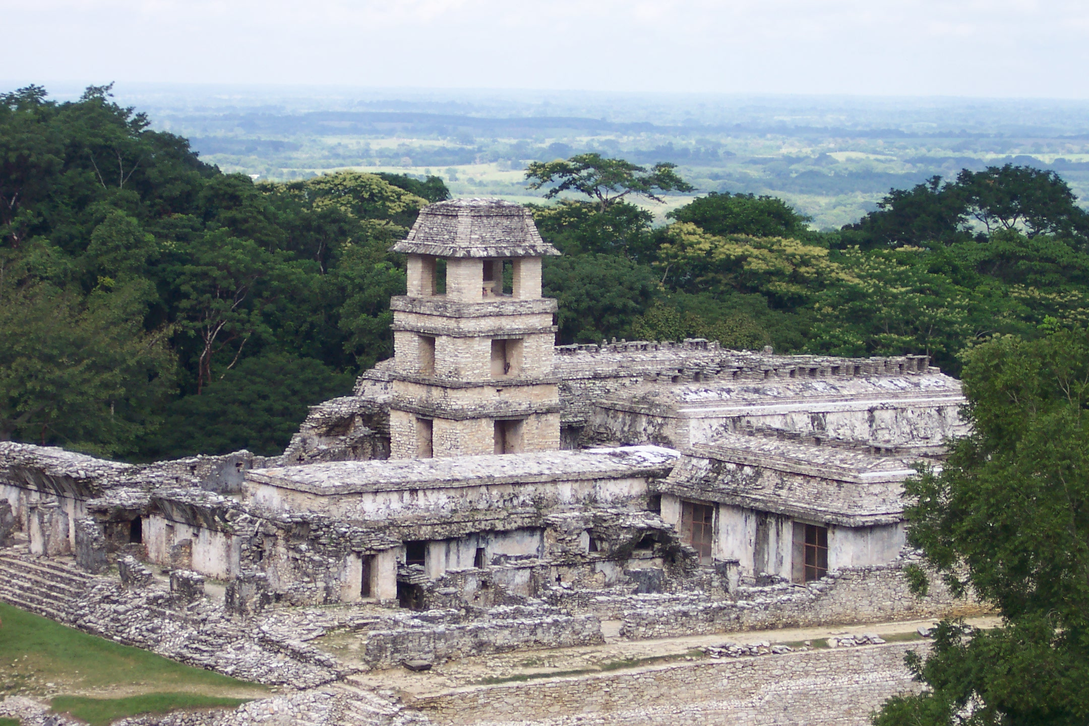 The Palace and watch tower - Palenque